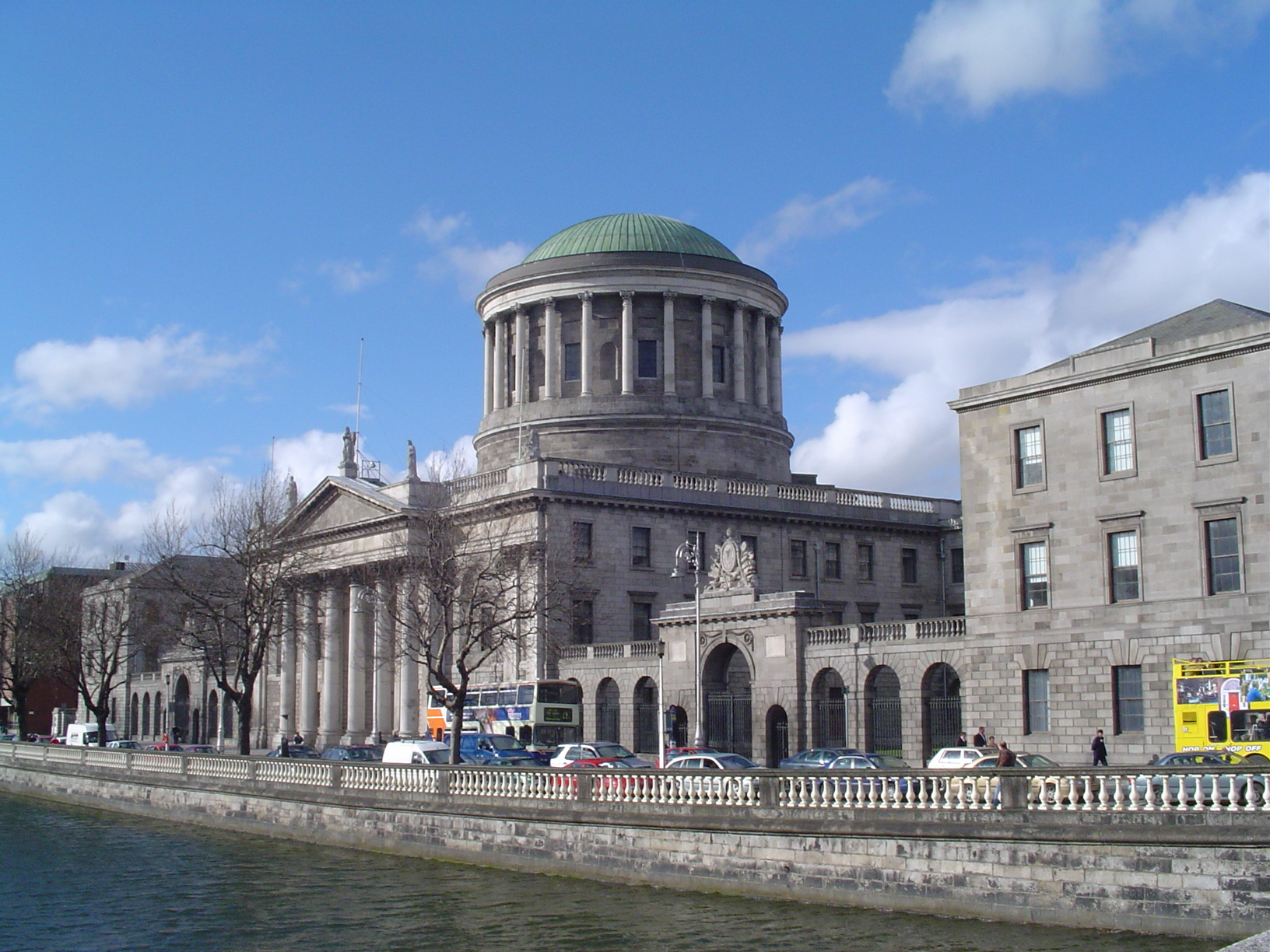 Dublin Four Courts on the quays of the Liffey